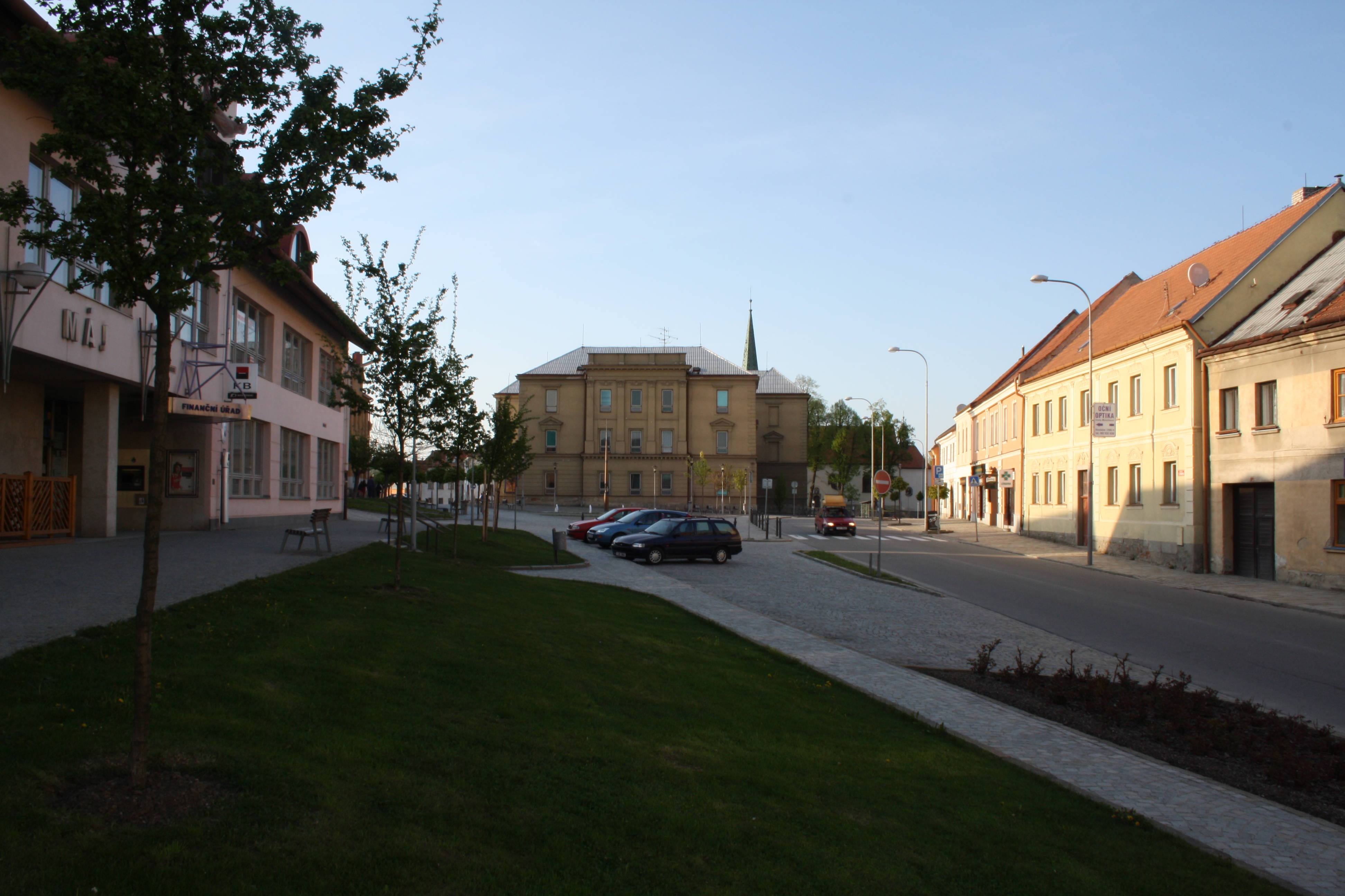 T. G. Masaryk's square in Třešť, Czech Republic.